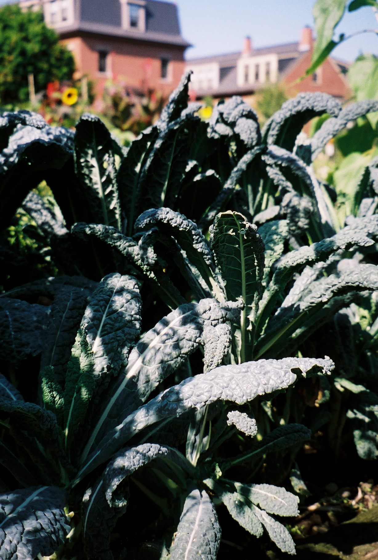 Tuscan kale Cavalo nero